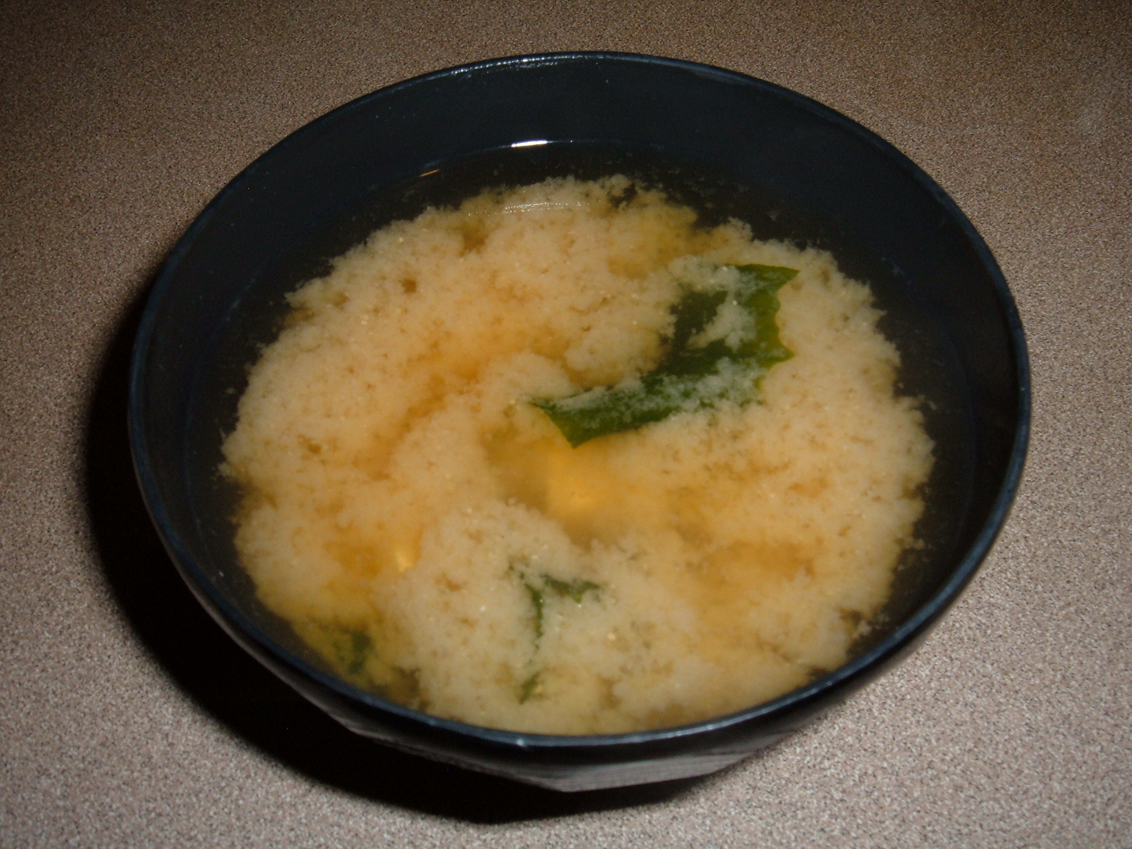 A bowl of miso soup